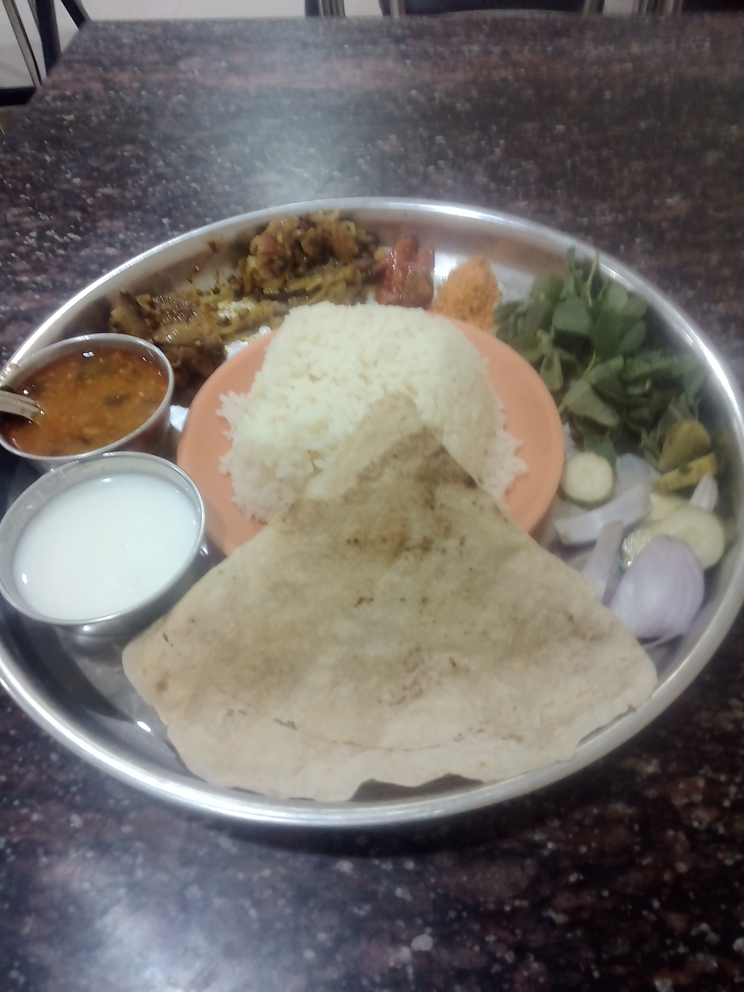 A meal served in Khanavali.